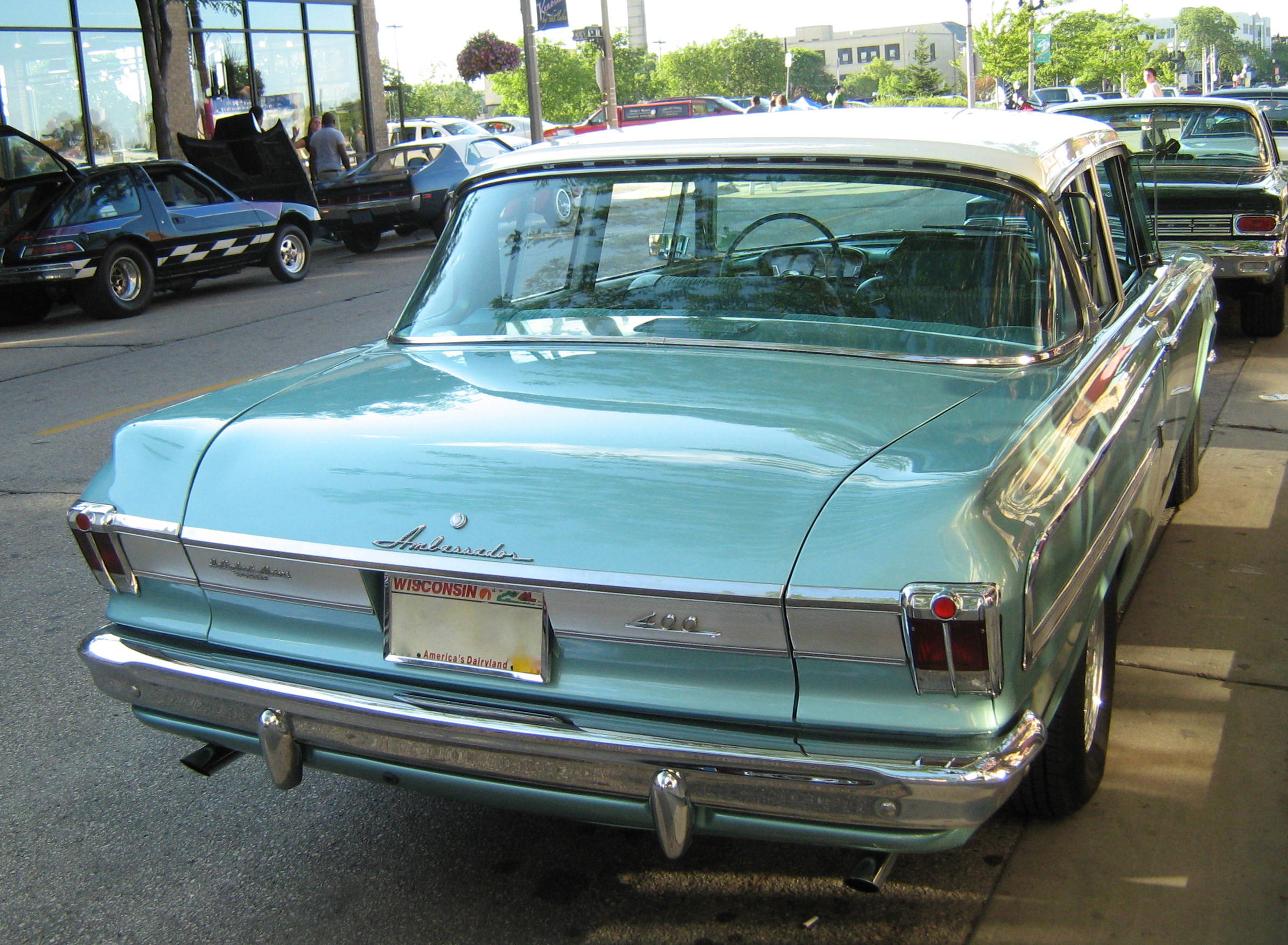 1962 Rambler Ambassador 400, two-door sedan, rear view. Built by American Motors Corporation (AMC) and finished in green with a white roof. Photographed in Kenosha, Wisconsin, USA.